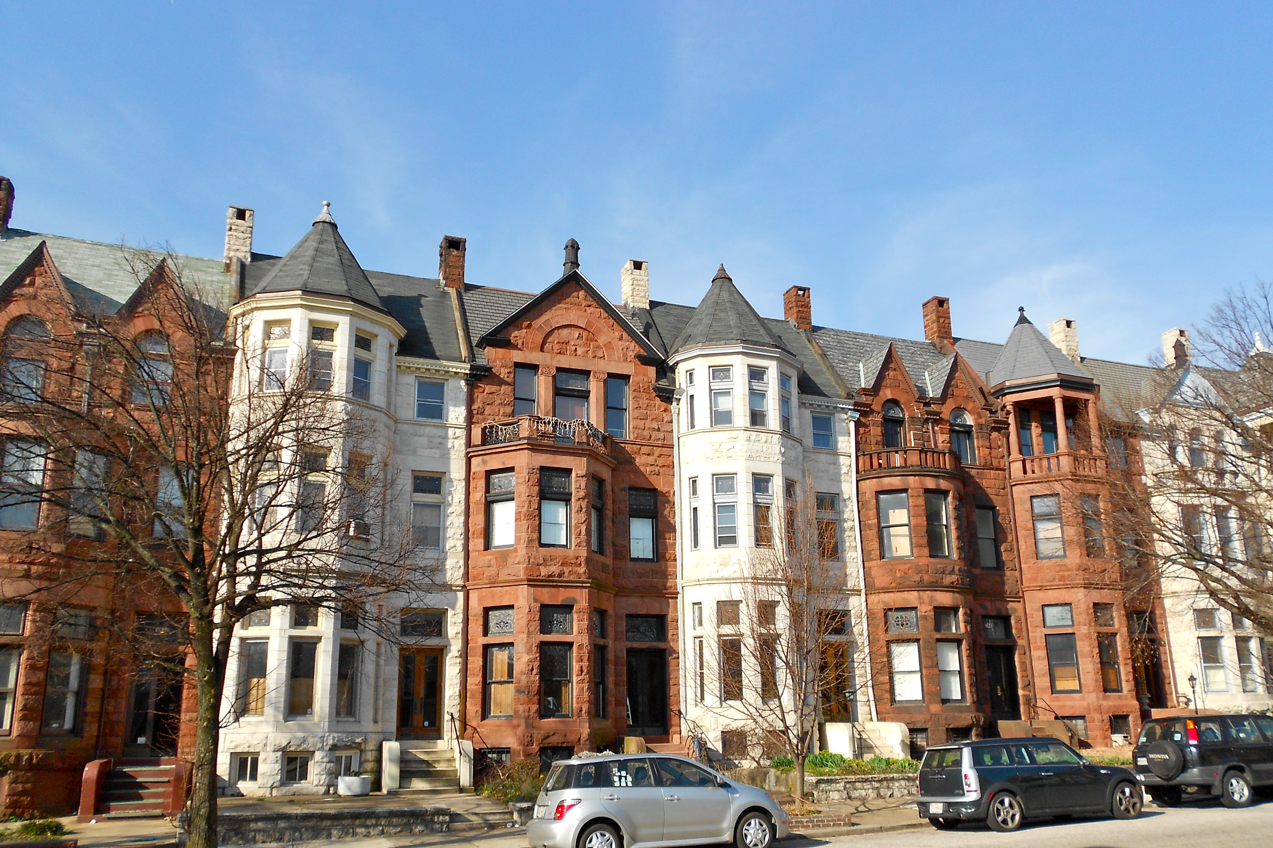 Houses in Reservoir Hill Historic District on the NRHP since December 23, 2004. The historic districted is bounded by North Ave., Madison Ave., Druid Park Lake Dr., and Mt. Royal Terrace, in Baltimore, Maryland. These houses are near the corner of Eutaw and Chauncey.